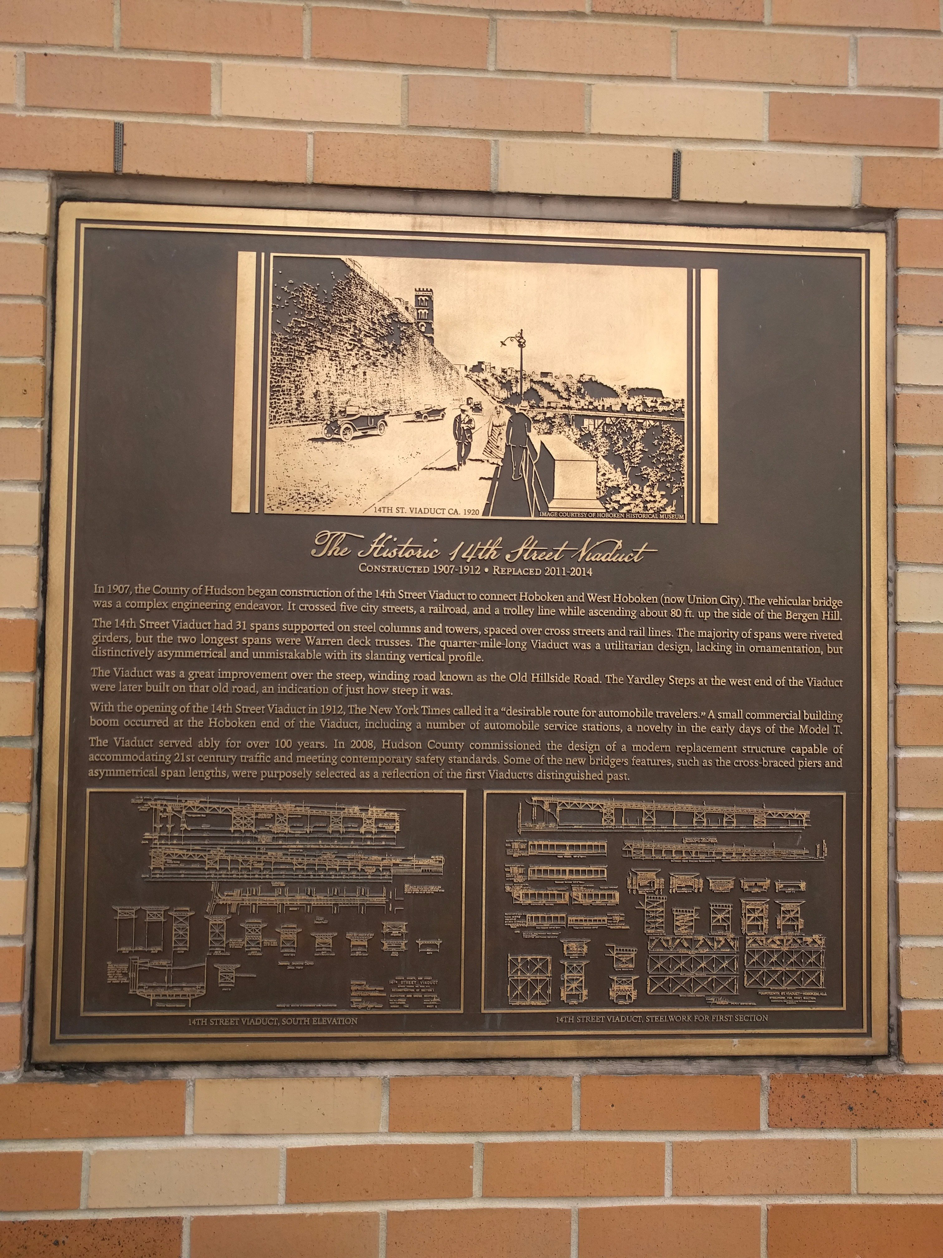 The Historic 14th Street Viaduct Constructed 1907-1912 * Replaces 2011-2014 In 1907, the County of Hudson becan construction of the 14th Street Viaduct to connect Hoboken and West Hoboken (now Union City). The vehicular bridge was a complex engineering endeavor. It crossed five city streets, a railroad, and a trolley line while ascending about 80 ft. up the side of the Bergen Hill. The 14th Street Viaduct had 31 spans supported on steel columns and towers, spaced over cross streets and rail lines. The majority of spans were riveted girders, but the two longest spans were Warren deck trusses. The quarter-mile-long Viaduct was a utilitarian design, lacking in ornamentation, but distinctively asymmetrical and unmistakable with its slanting vertical profile. The Viaduct was a great improvement over the steep, winding rod known as the Old Hillside Road. The Yardley Steps at the west end of the Viaduct were later build on that road, an indication of just how steep it was. With the opening of the 14th Street Viaduct in 1912, The New York Times called it a "desirable route for automobile travelers." A small commercial building boom occurred at the Hoboken end of the Viaduct, including a number of automobile service stations, a novelty in the early days of the Model T. The Viaduct served ably for over 100 years. In 2008, Hudson County commissioned the design of a modern replacement structure capable of accommodating 21st century traffic and meeting contemporary safety standards. Some of the new bridge's features, such as the cross-braces piers and asymmetrical span lengths, were purposely selected as a reflection of the first Viaduct's distinguished past.